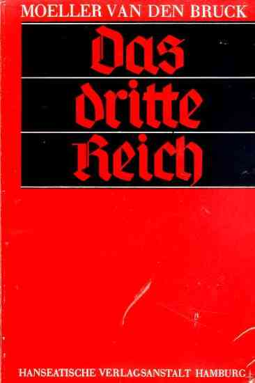 Arthur Moeller van den Bruck: Das Dritte Reich. Herausgegeben von Hans Schwarz. 3. Auflage. Ungekürzte Sonderausgabe 1931